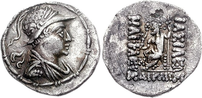 Coin of the Baktrian king Heliocles